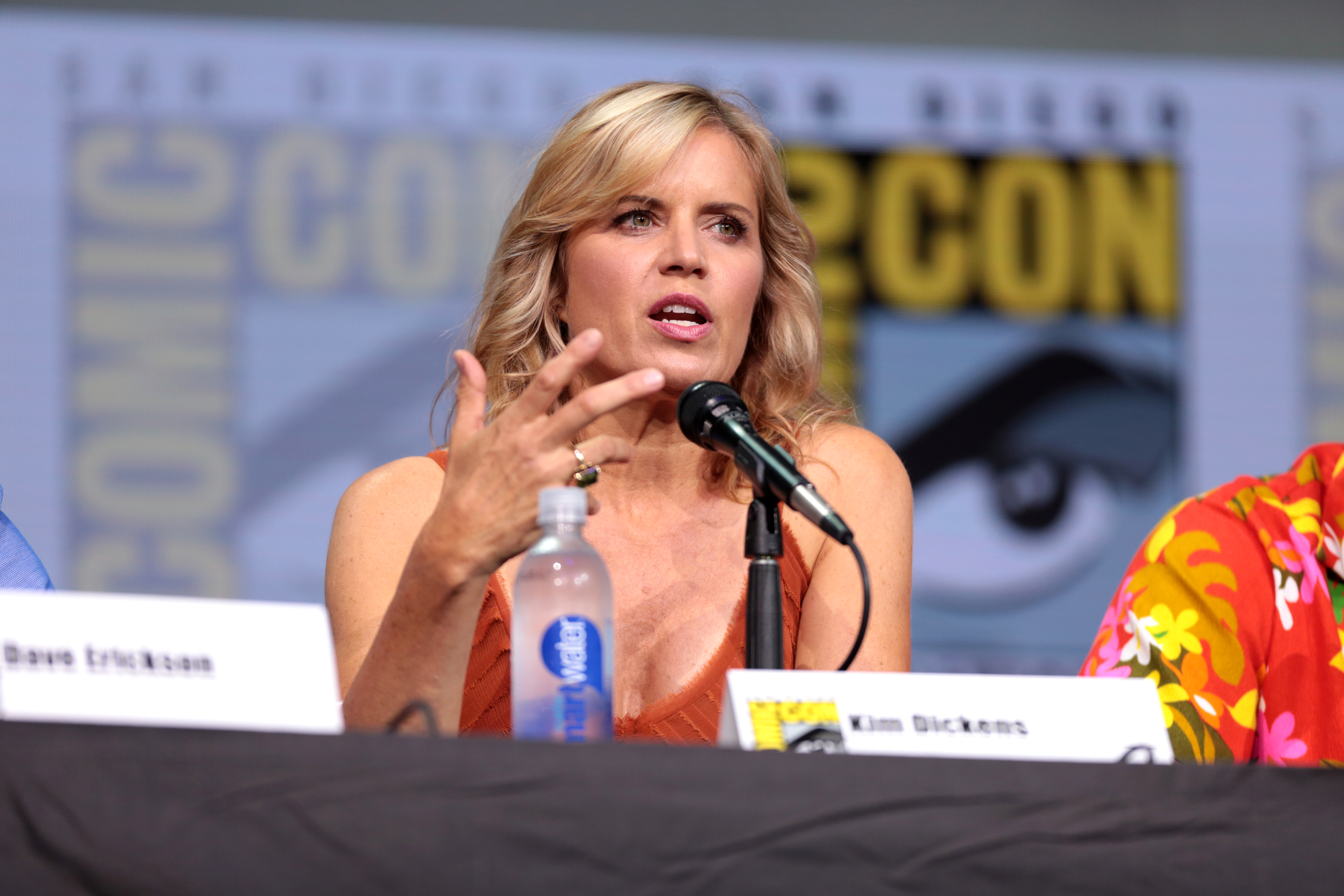 Kim Dickens speaking at the 2017 San Diego Comic Con International, for "Fear the Walking Dead", at the San Diego Convention Center in San Diego, California.